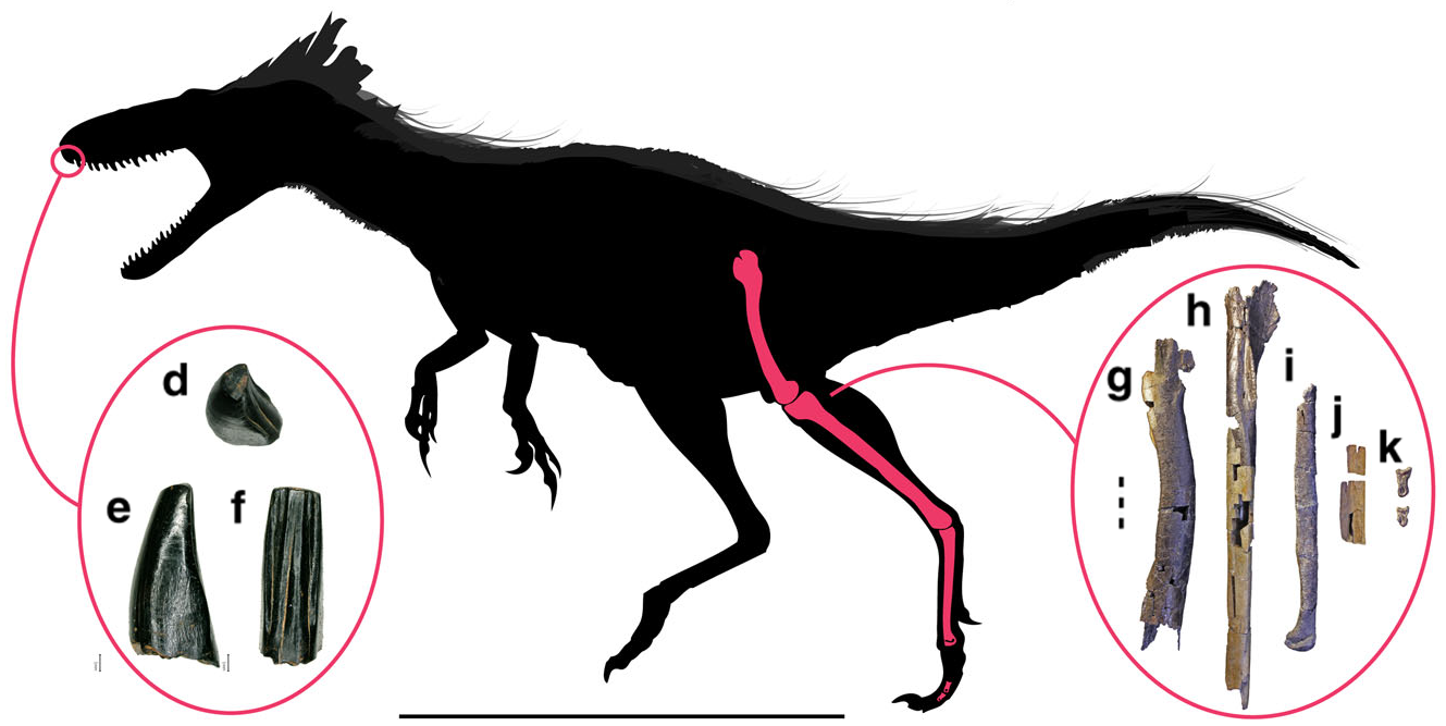 Silhouette of M.intrepidus showing recovered elements. Isolated indet. tyrannosauroid premaxillary tooth (NCSM 33393) recovered from nearby strata in (d) occlusal, (e) mesiodistal, and (f) lingual views. Holotype specimen of M.intrepidus (NCSM 33392) composed of (g) femur, (h) tibia, (i) fourth metatarsal, (j) second metatarsal, and (k) pedal phalanges of the fourth digit. Scale bar (c) 1 m, (g–k) 5 mm. (d–f) Enlarged to show detail, not to scale